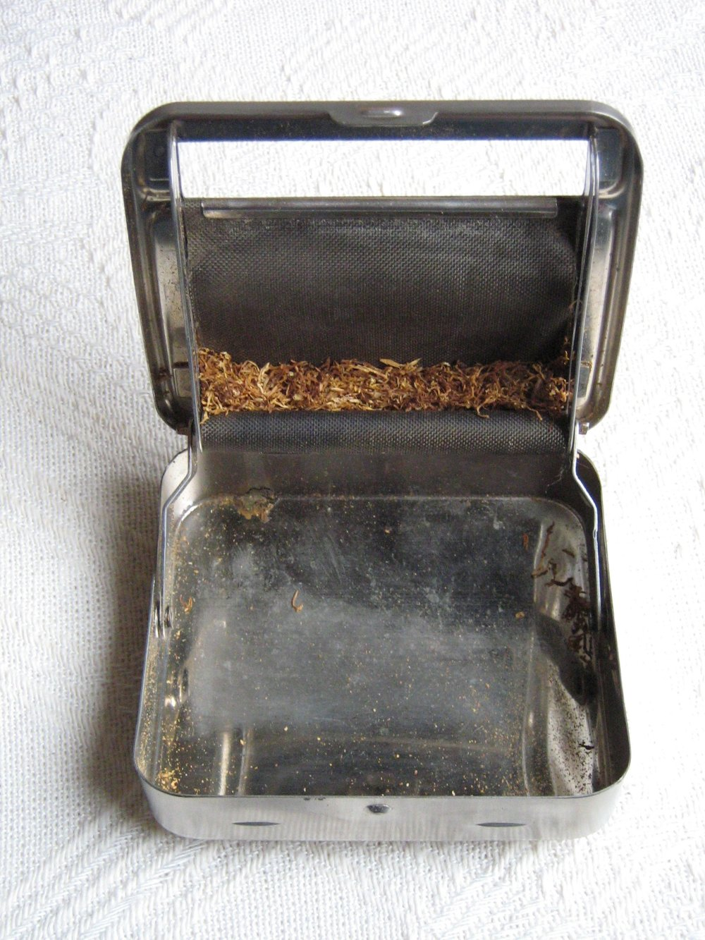 a open rolling machine with tobacco